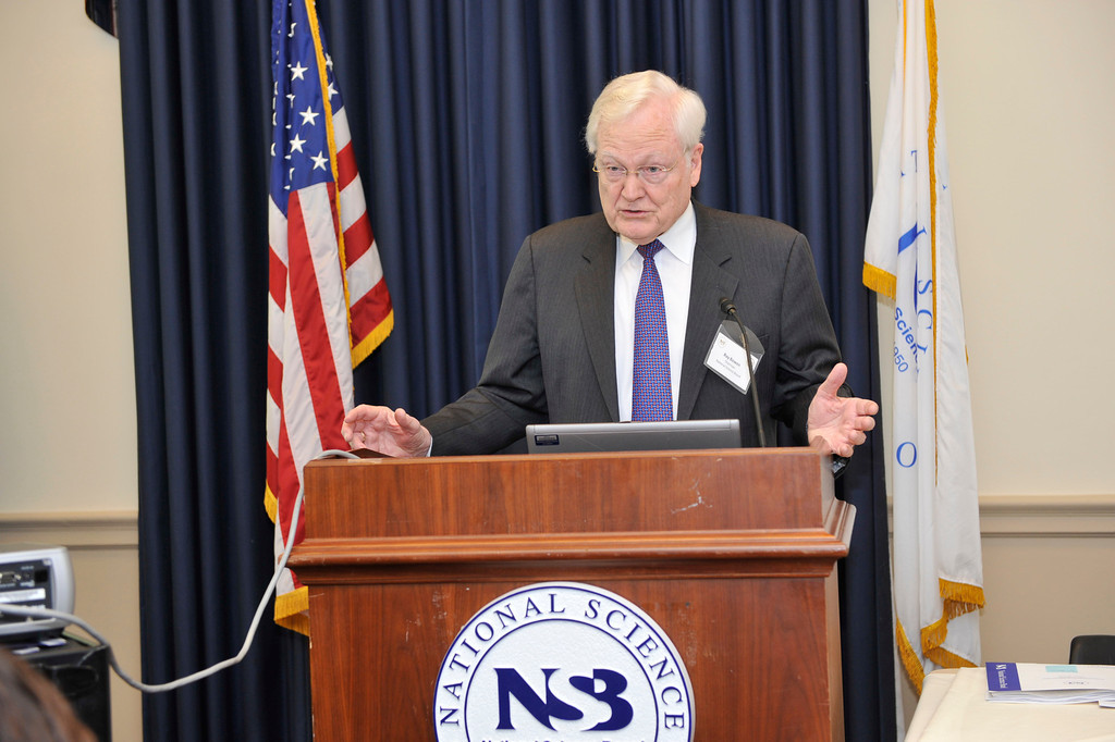 The National Science Board, the policy making body for NSF, hosted a luncheon briefing on Capitol Hill on January 18, 2012, to mark the release of Science and Engineering (S&E) Indicators 2012 with a discussion of how U.S. science and technology compare to other parts of the world. Indicators is published biennially and presents comprehensive data on the state of the science and technology enterprise in the United States and internationally. Speaking at the briefing were: NSB Chairman Ray M. Bowen, NSF Director Subra Suresh, special guest Rep. Rush Holt, a Democrat from New Jersey and member of the House Committee on Education and the Workforce, Dr. José-Marie Griffiths, NSB S&E Indicators Committee Chairman, Rolf Lehming, the director of the S&E Indicators program in NSF's National Center for Science and Engineering Statistics (NCSES), and Jeri Mulrow, a program director in NCSES. NSF Deputy Director Cora Marrett was a VIP guest. Following the remarks, the panelists took questions from audience members, including Mary Woolley, President and CEO of Research!America. S&E Indicators is available on the NSF website . Credit: Sandy Schaeffer for NSF Visit NSF’s Multimedia Gallery, at for more images, and for video.